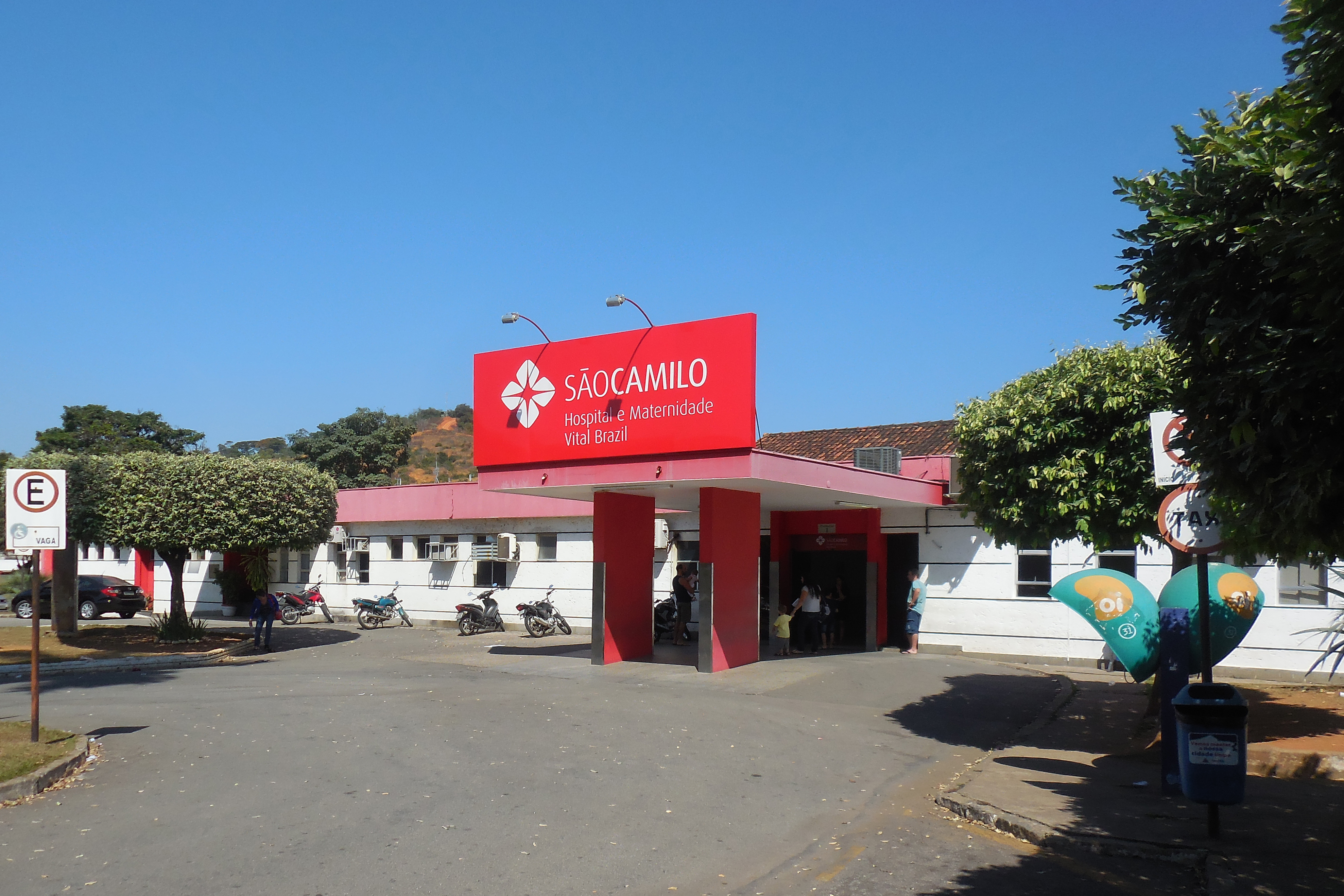 Emergency department of the Vital Brazil hospital and maternity, in Timóteo, Minas Gerais, Brazil.